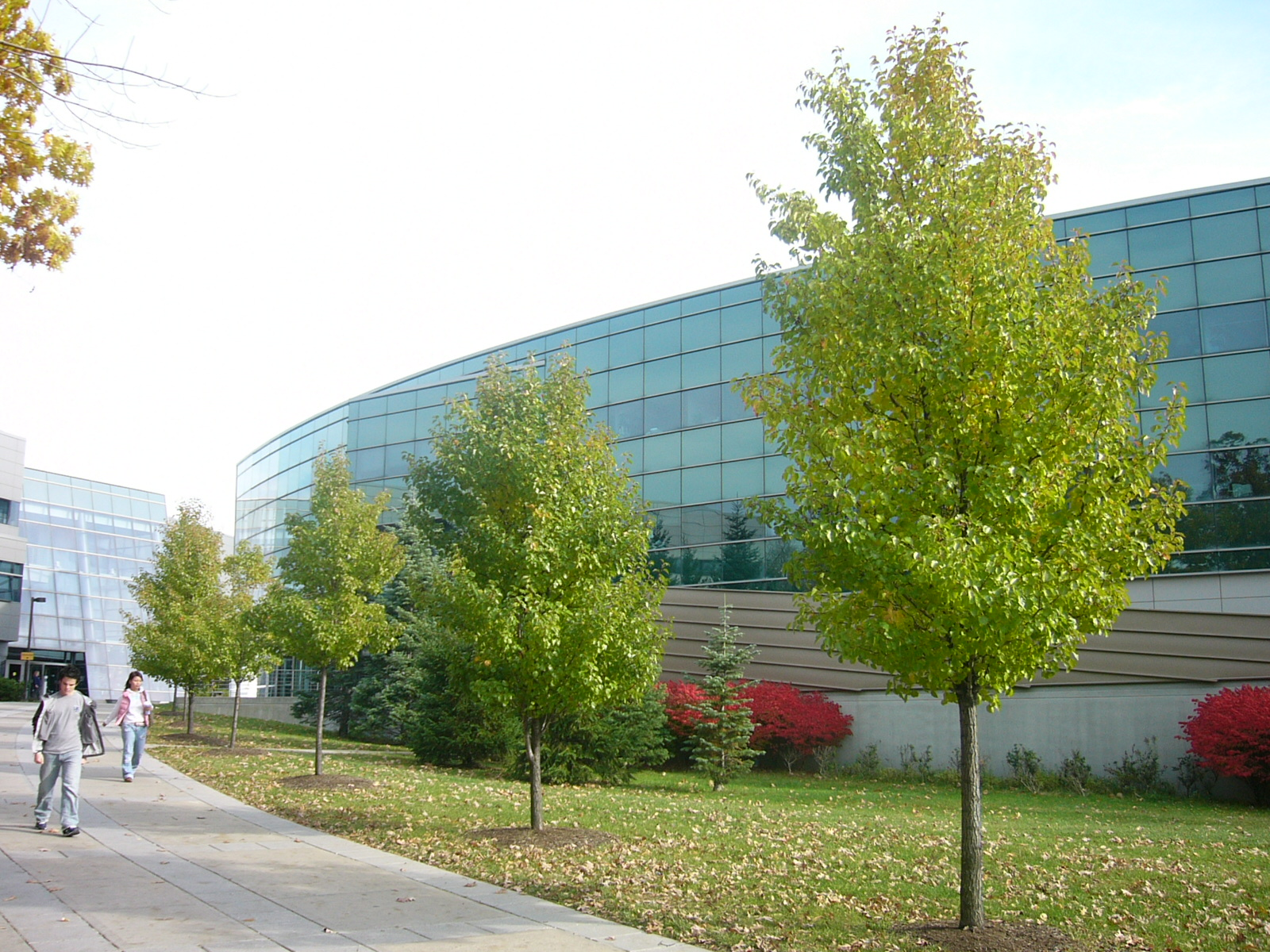 Academic A, School of Management, Binghamton University.